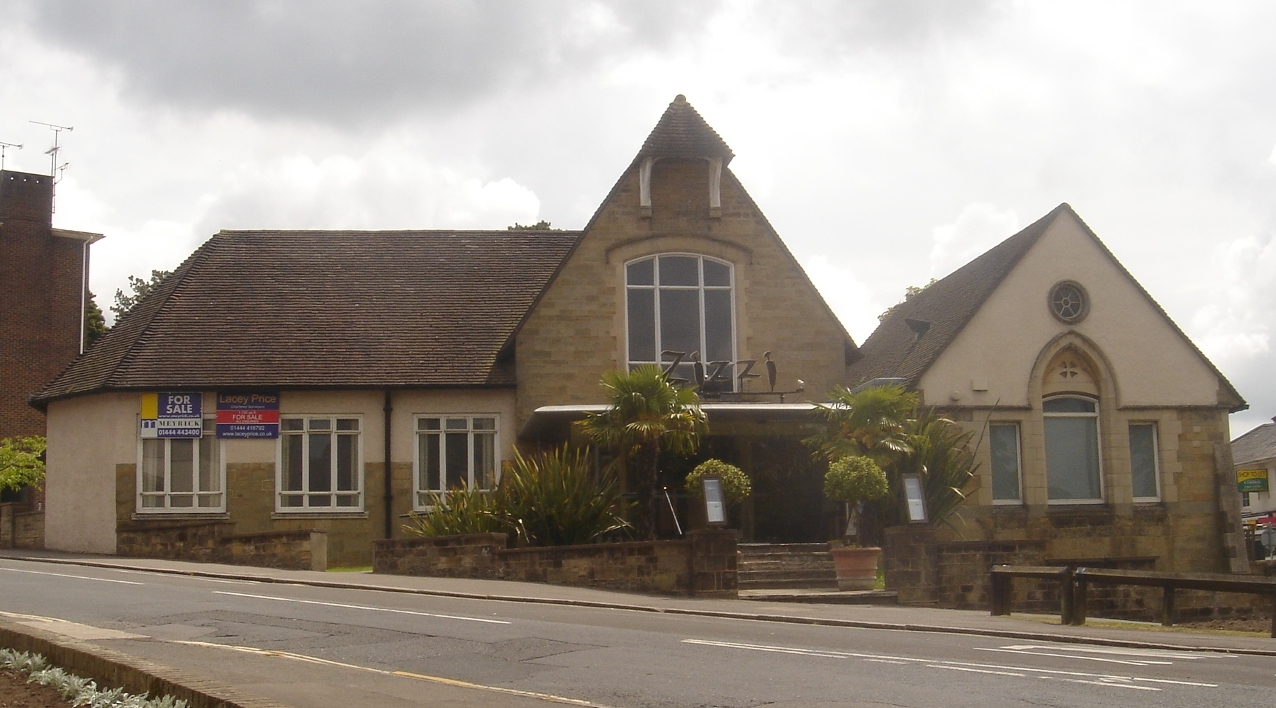 The former St Wilfrid's school and chapel, junction of Church Road and South Road, Haywards Heath, West Sussex, England. Built for the Church of England in 1856 as both a school and a temporary place of worship. The school expanded, but moved to a new site in 1951. The building became a Christian Science church and reading room, and was later converted into a restaurant. A new Christian Science church occupies an extension around the side of the building.